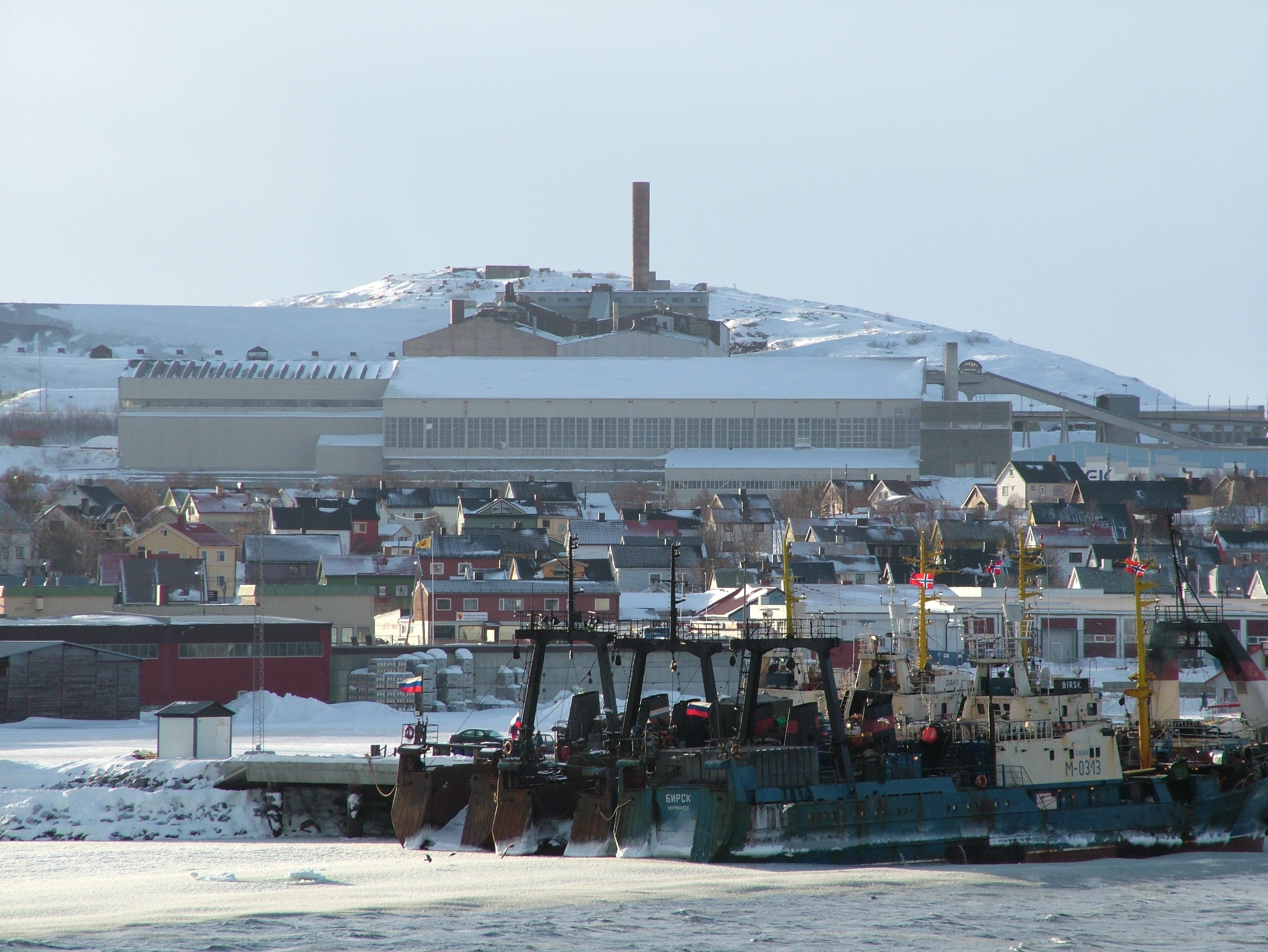 Harbour of Kirkenes, Finnmark, Norway